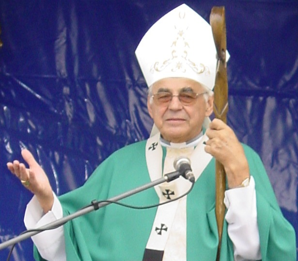 Cardinal Miloslav Vlk in Nový Knín, Czechia